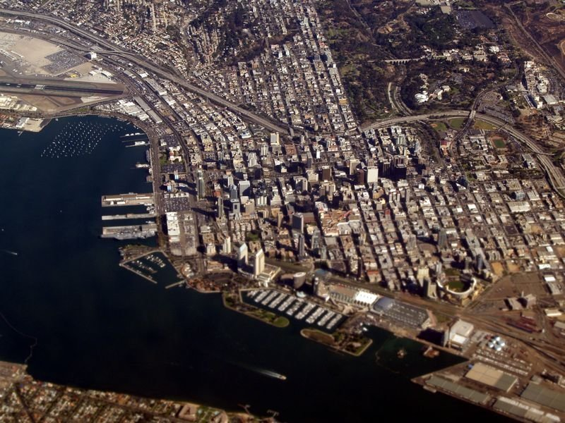 An aerial view of downtown San Diego Please acknowledge "Phil Konstantin" as the creator of this photograph.